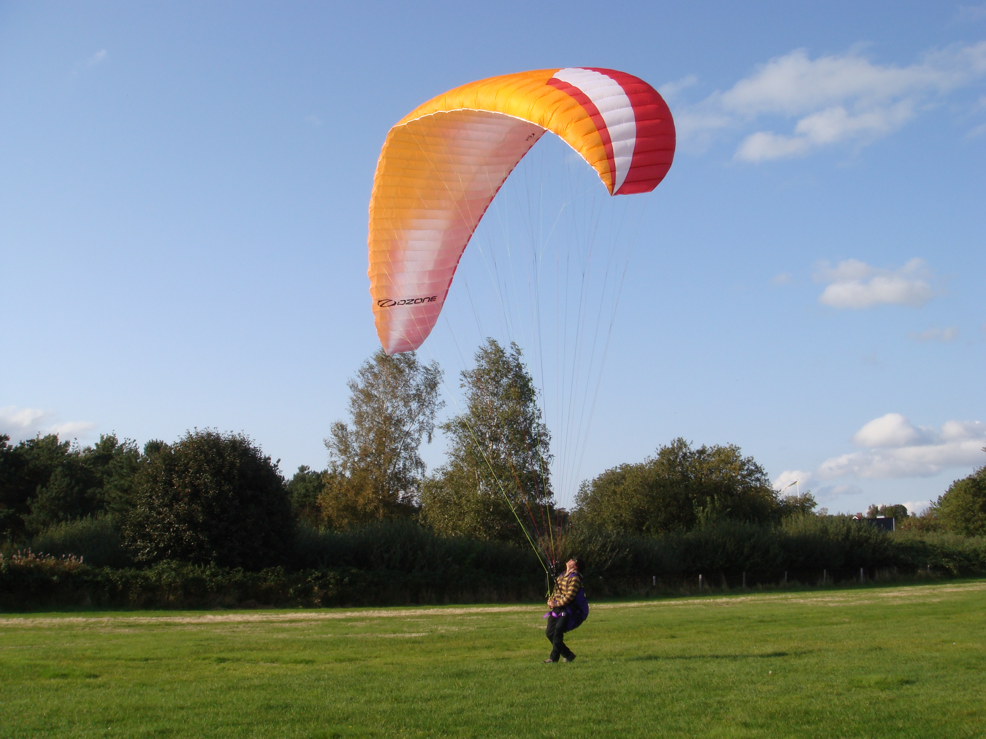 A novice glider taken out for ground-handling/kiting.